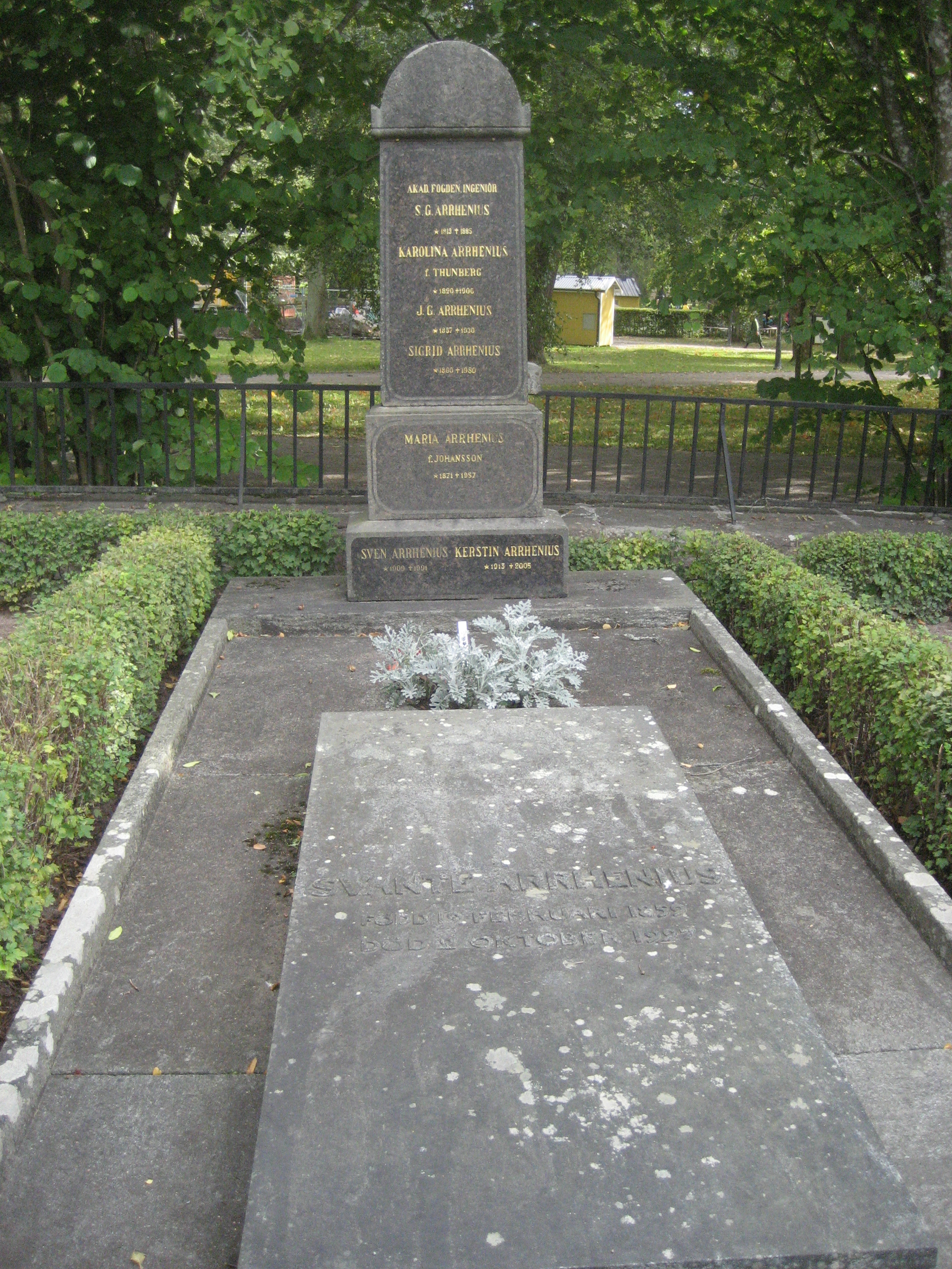 Svante Arrhenius, Uppsala Cemetery (Sweden)